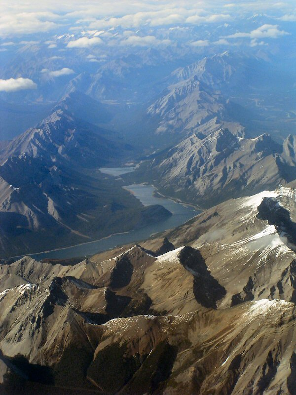 Taken over the Rocky mountains just west of Calgary on my trip back from San Francisco, CA.